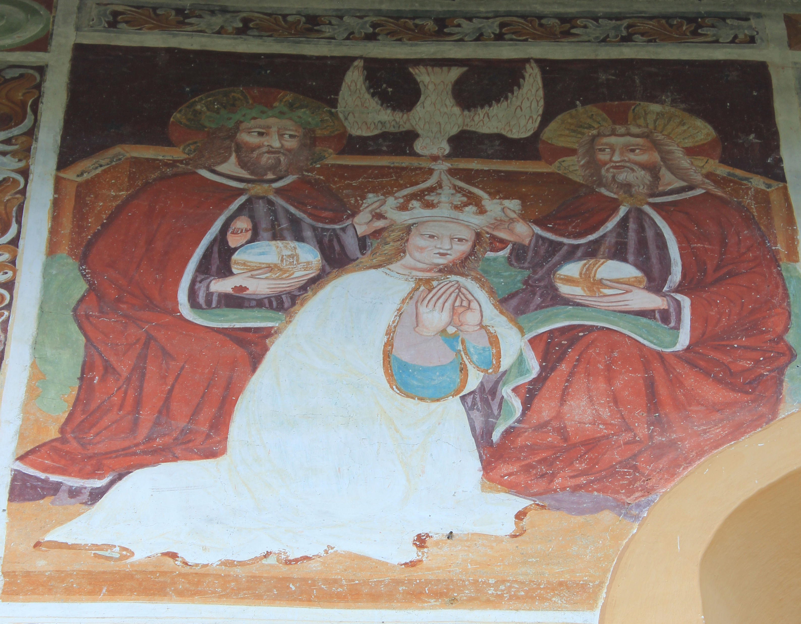 Church of Rittersdorf in the community of Irschen